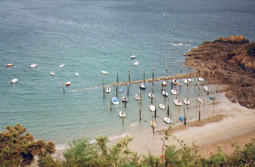 Harbour of Gwin Zegal